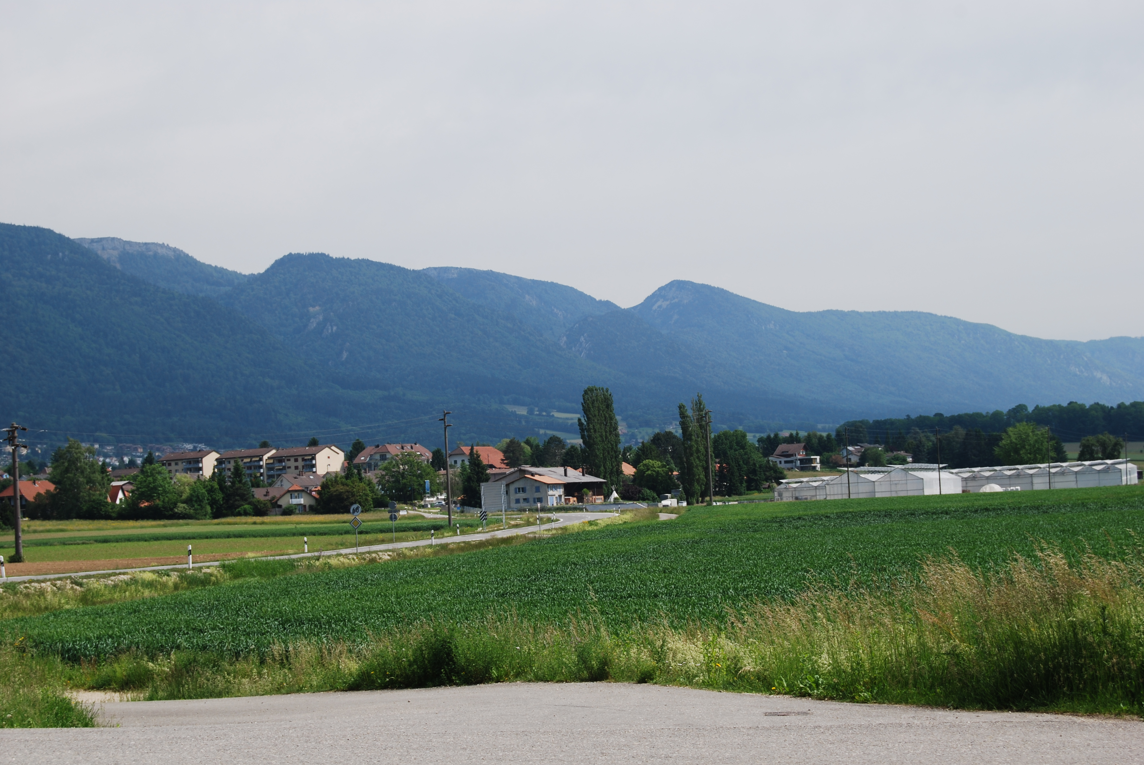 Lengnau, canton of Bern, SwitzerlandEsperanto: Lengnau, Kantono Berno, Svislando